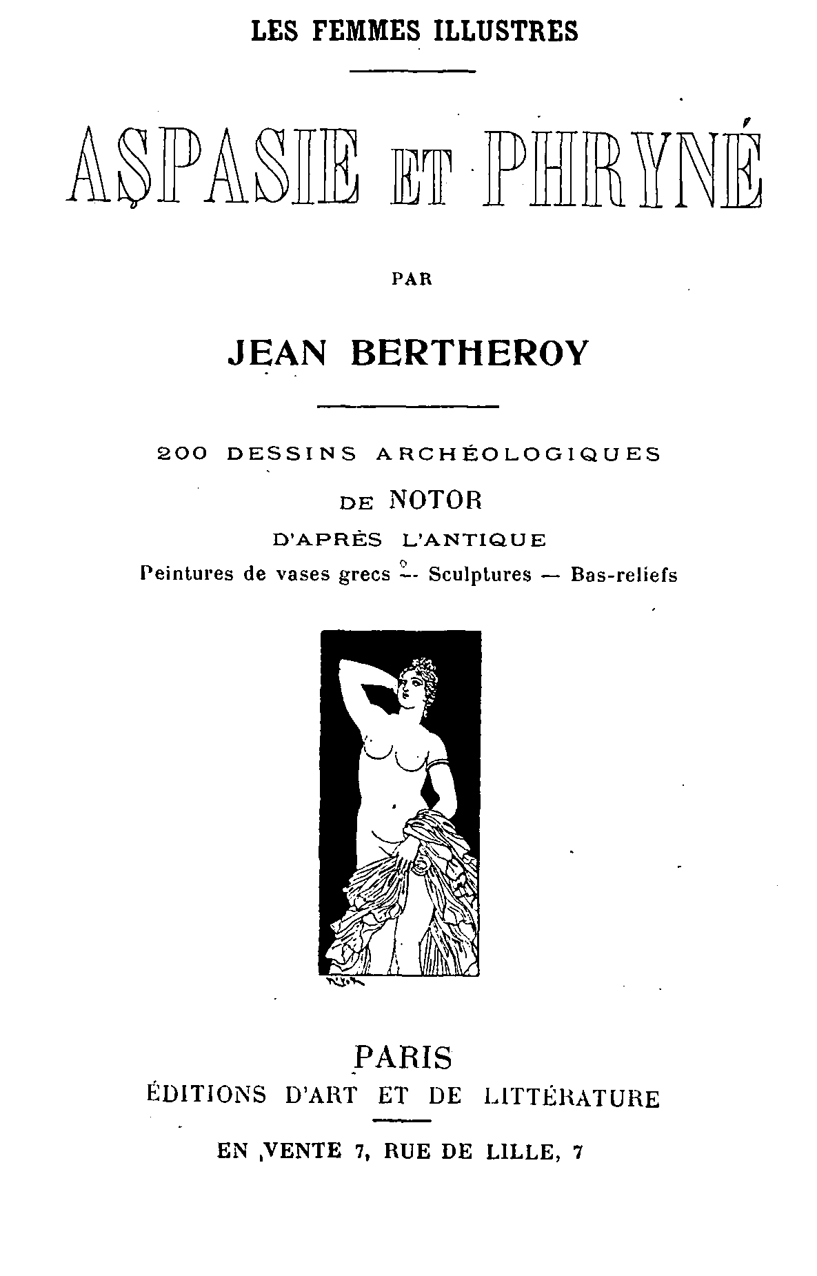 Aspasie et Phryné (1913) by French writer Berthe Clorinne Jeanne Le Barillier a.k.a. Jean Bertheroy (1858-1927).